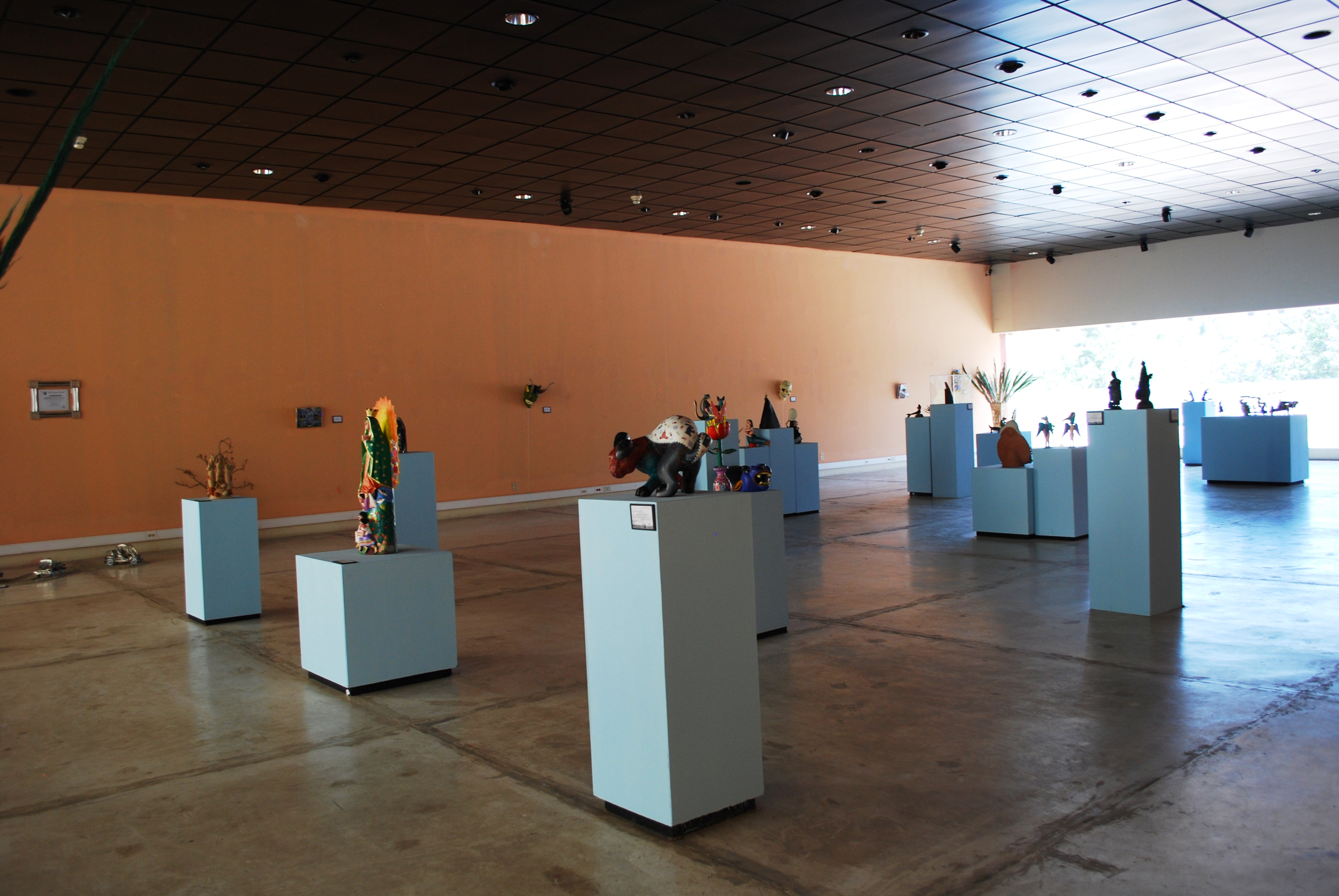 Artistas Genuinos Hall at Museo Estatal de Arte Popular de Oaxaca in San Bartolo Coyotepec, Oaxaca, Mexico